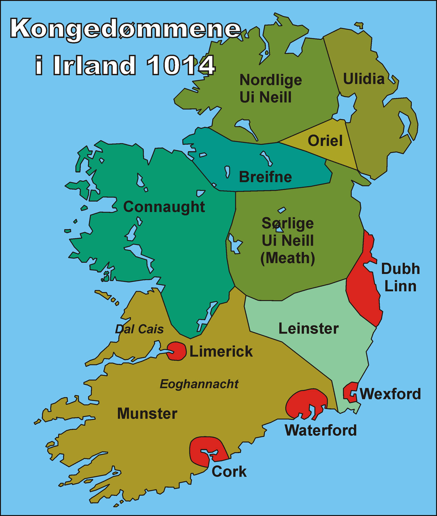 Map of the Kingdoms of Ireland, circa 1014Norsk bokmål: Historisk kart over Irland 1014